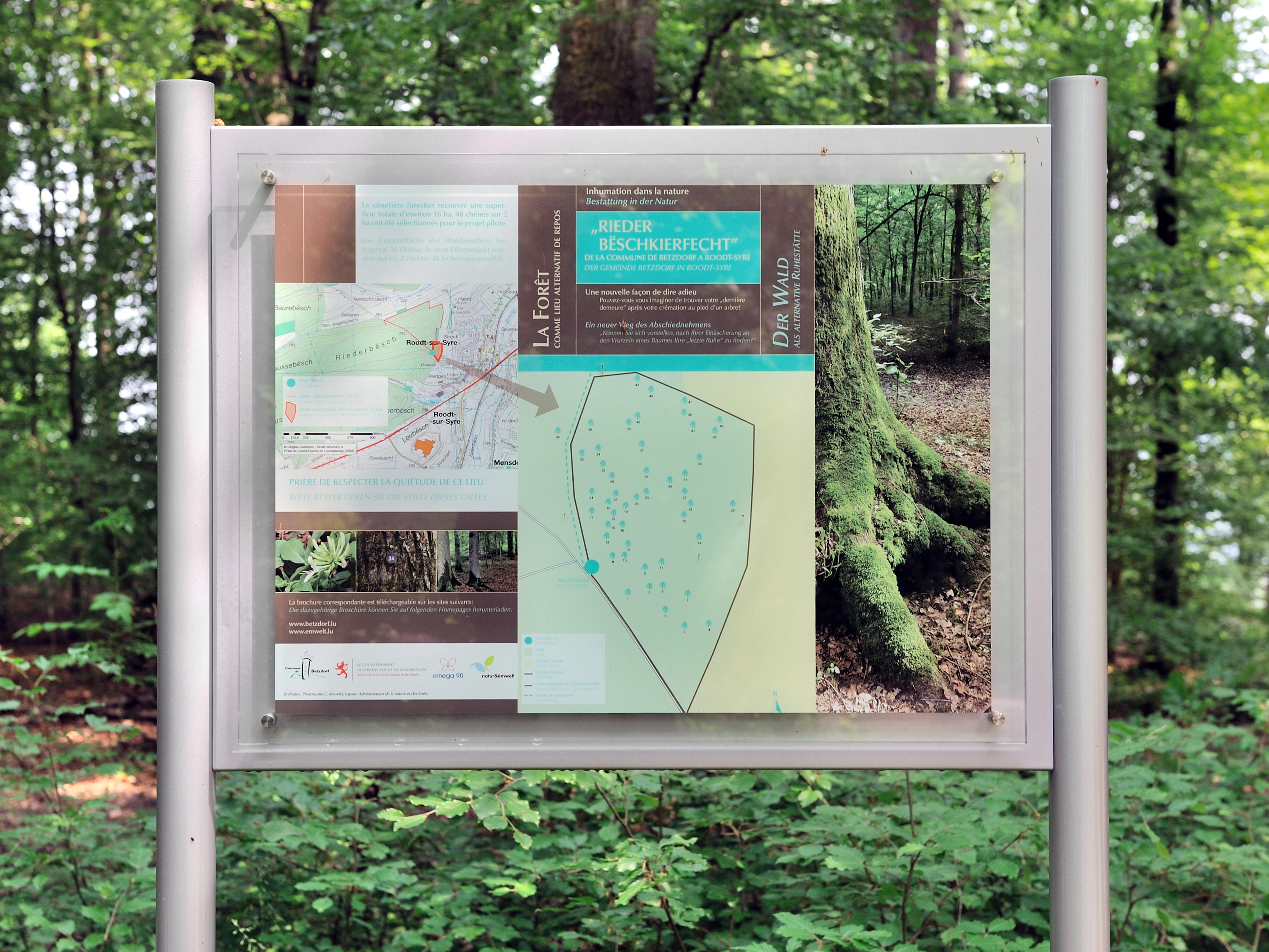 Luxembourg, Roodt-sur-Syre: Bilingual (French-German) info panel at woodland cemetery.